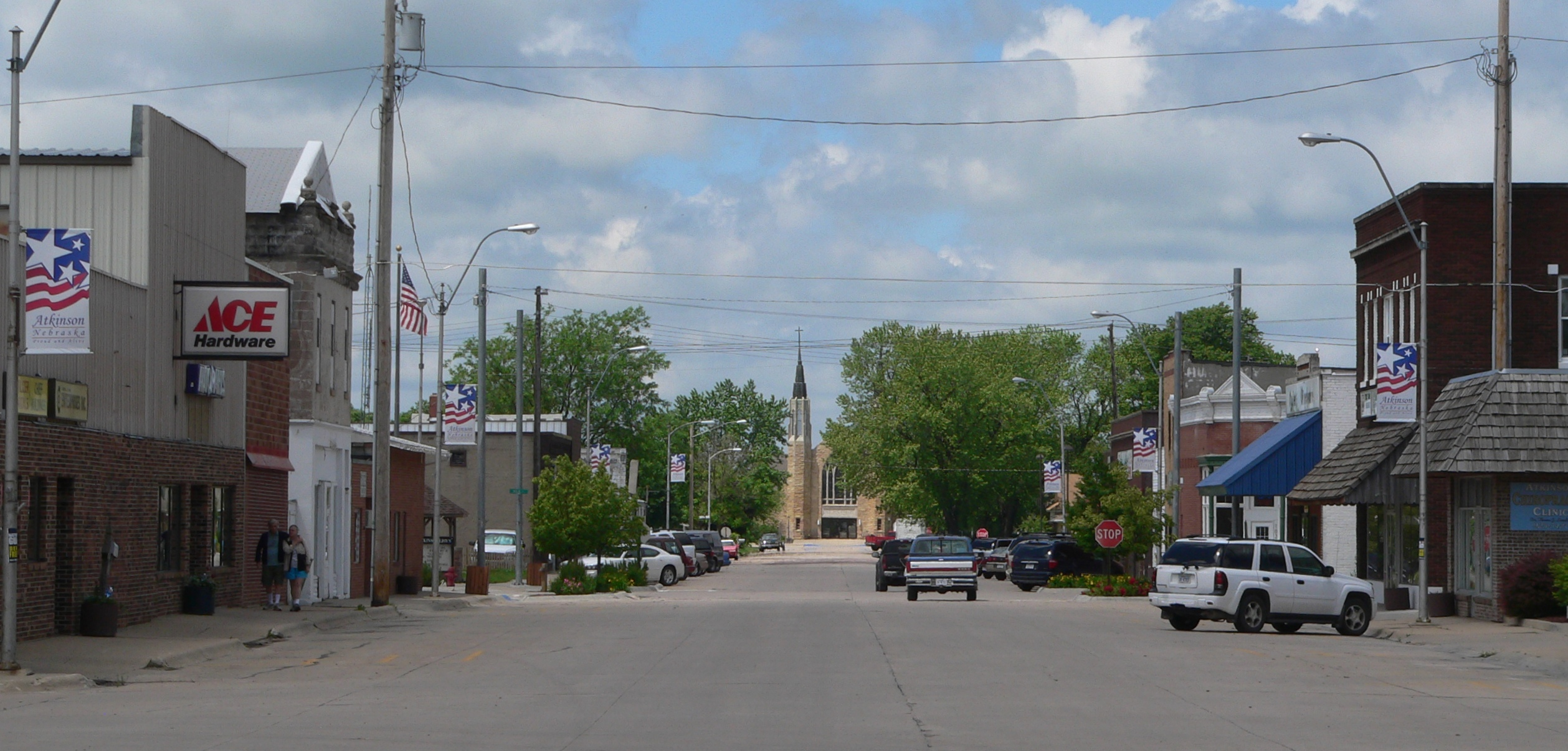 Downtown Atkinson, Nebraska: State Street, looking west from about William Street.